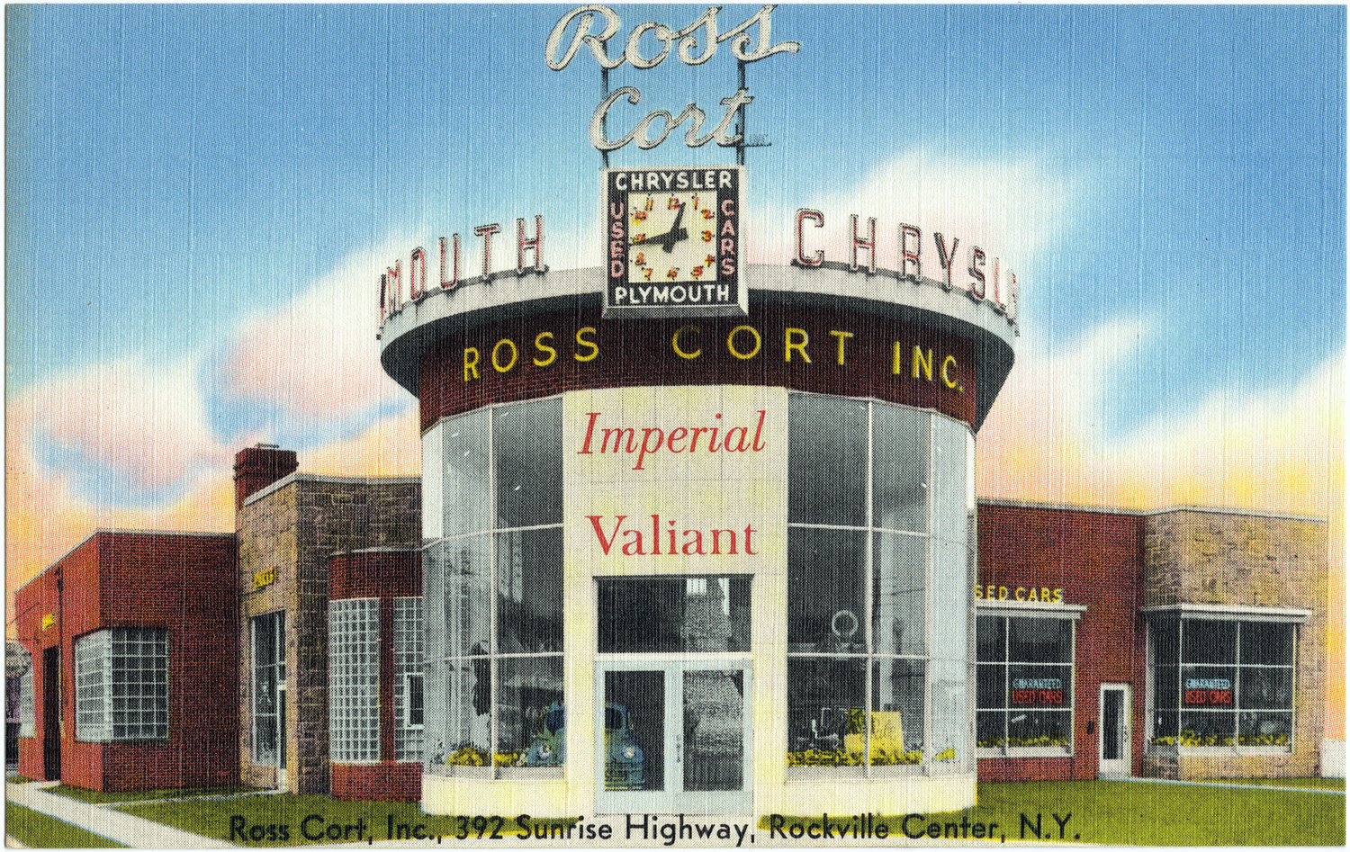 File name: 06_10_005835 Title: Ross Cort, Inc., 392 Sunrise Highway, Rockville Center, N.Y. Created/Published: Date issued: 1930 - 1945 (approximate) Physical description: 1 print (postcard) : linen texture, color ; 3 1/2 x 5 1/2 in. Genre: Postcards Subjects: Commercial facilities Notes: Title from item. Collection: The Tichnor Brothers Collection Location: Boston Public Library, Print Department Rights: No known restrictions